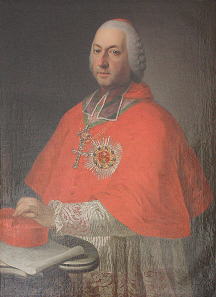 Cristoforo Antonio Migazzi (1714-1803), count-bishop of Vac and archbishop of Vienna